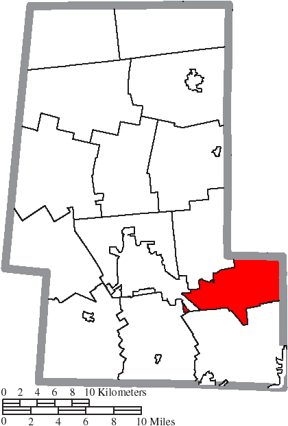 Map of the municipal and township boundaries of Union County, Ohio, United States, as of the 2000 census, with the location of Millcreek Township highlighted. Township borders are shown only in unincorporated areas in order to differentiate incorporated and unincorporated areas more clearly.